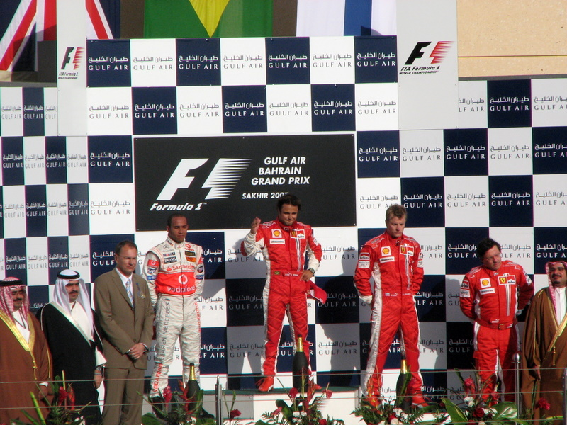 The podium of the 2007 Bahrain GP (l-r: Lewis Hamilton, Felipe Massa and Kimi Räikkönen).